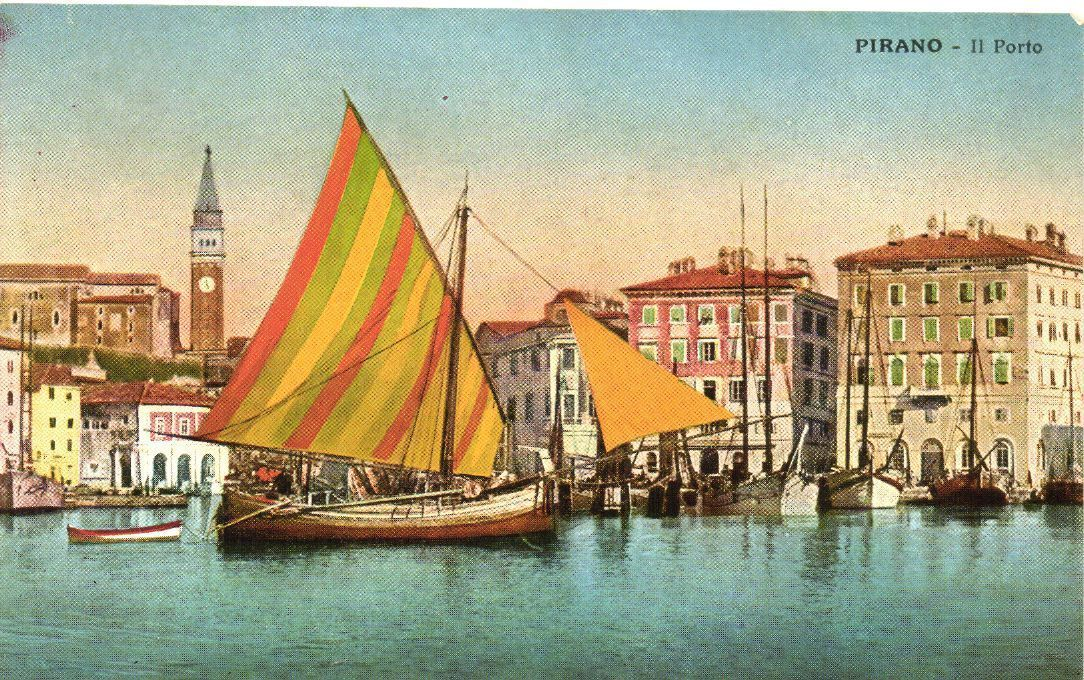 Postcard of Piran harbour.